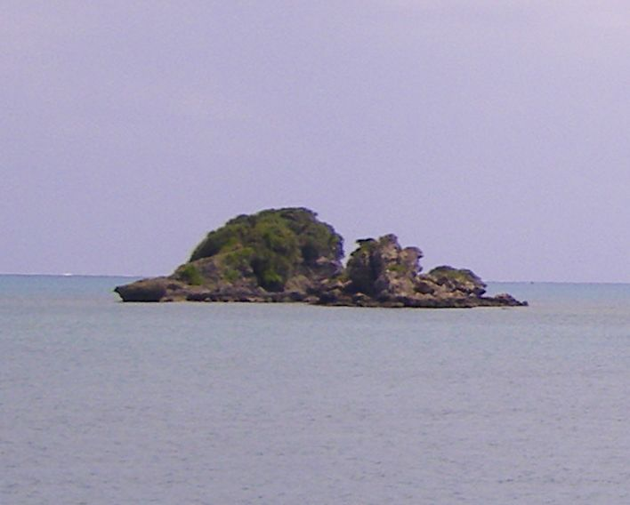 Nanza Island, off the eastern coast of Henza Island, Uruma, Okinawa Prefecture.